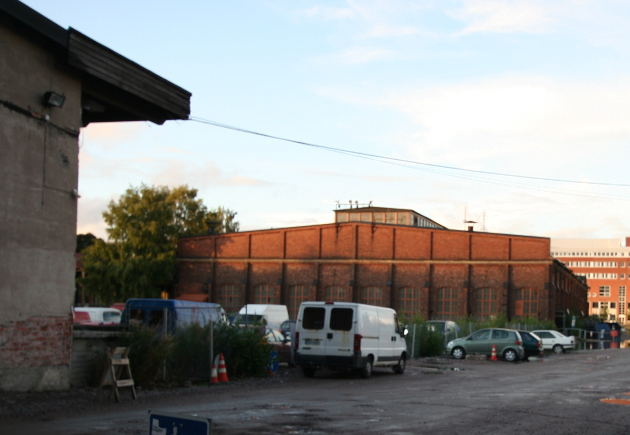 Flea market entrace, Vallila Helsinki